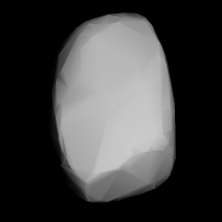 3D convex shape model of 1256 Normannia, computed using light curve inversion techniques. J. Hanuš, J. Ďurech, M. Brož, B. D. Warner (June 2011). "A study of asteroid pole-latitude distribution based on an extended set of shape models derived by the lightcurve inversion method". Astronomy and Astrophysics 530: A134. ISSN 0004-6361. arXiv